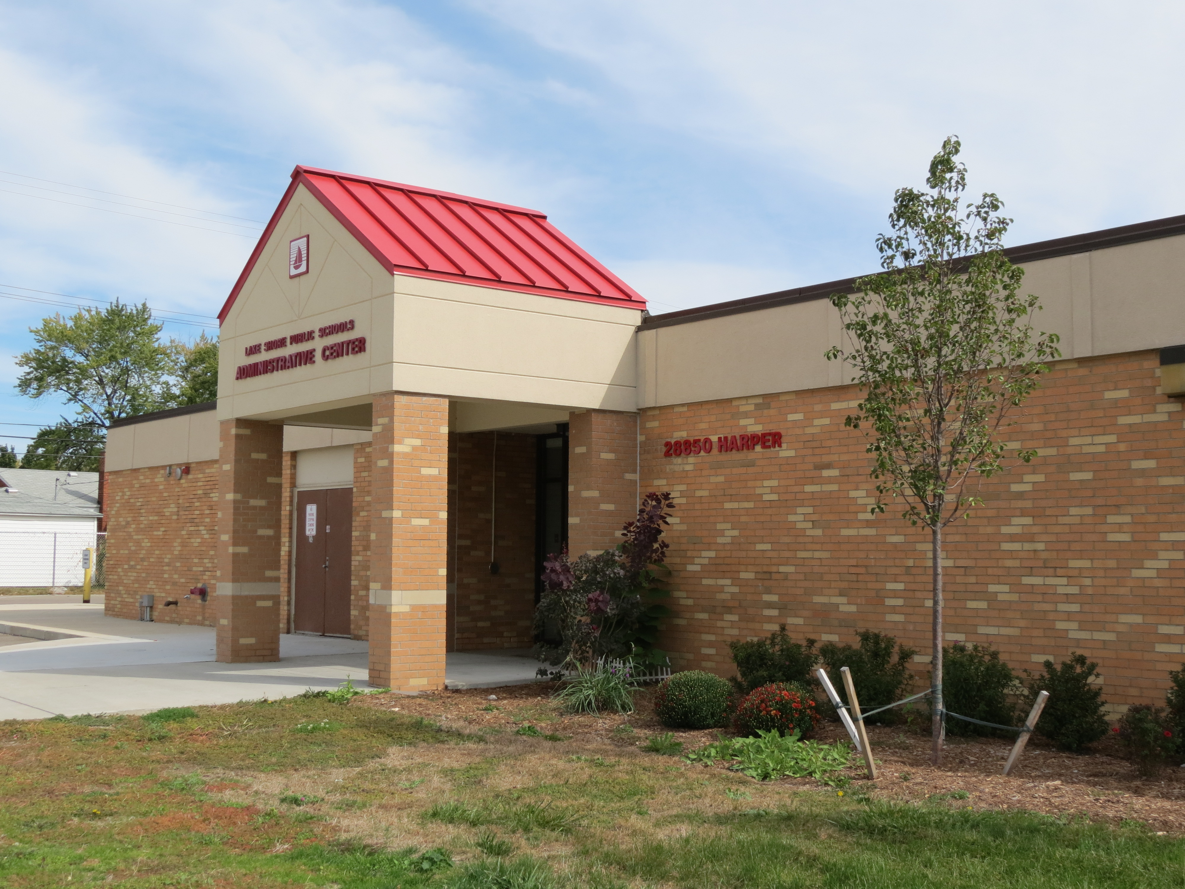 LSPS Administration Center - Harper Ave.